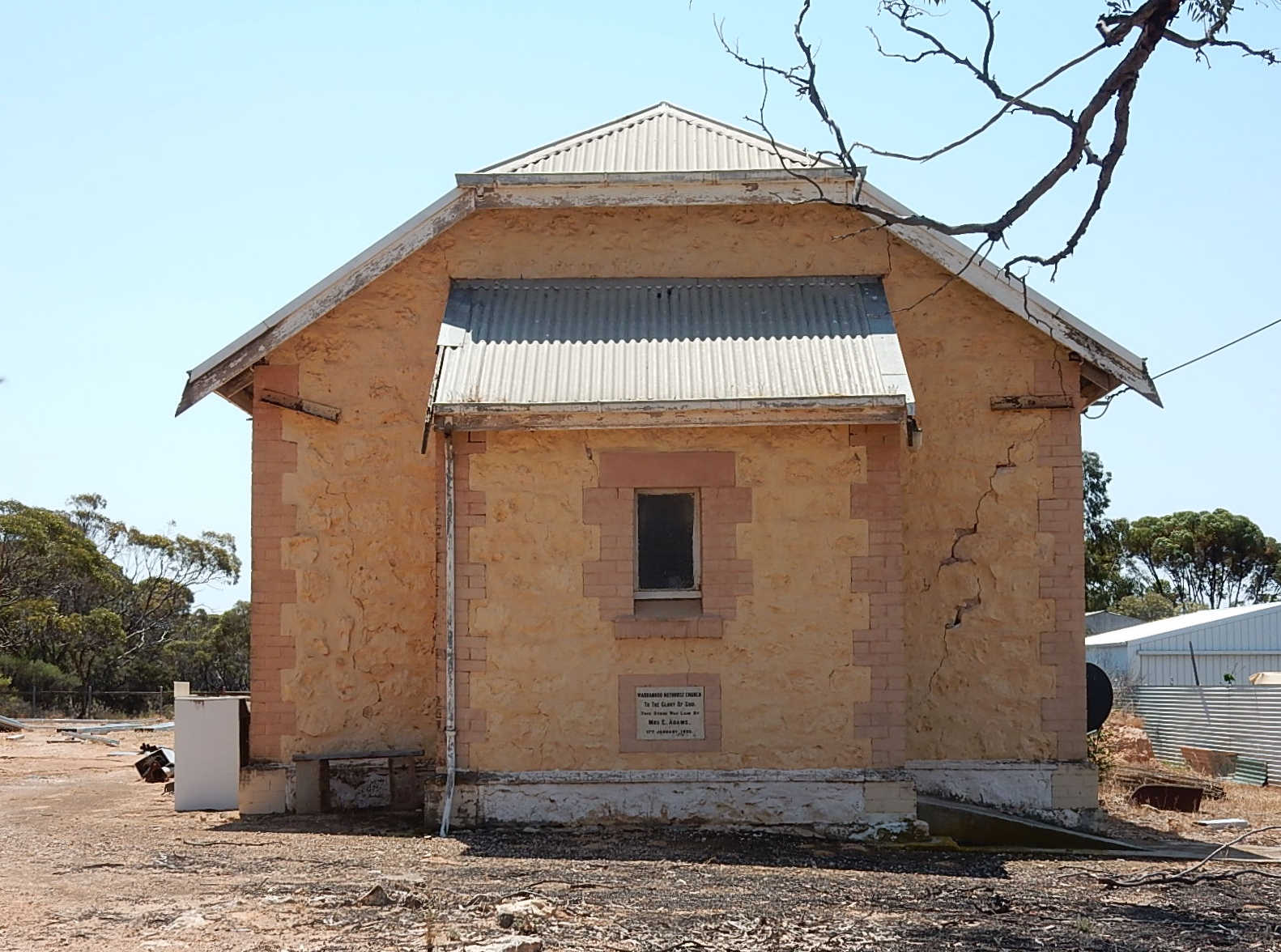 The Wonderful Warramboo Methodist Church